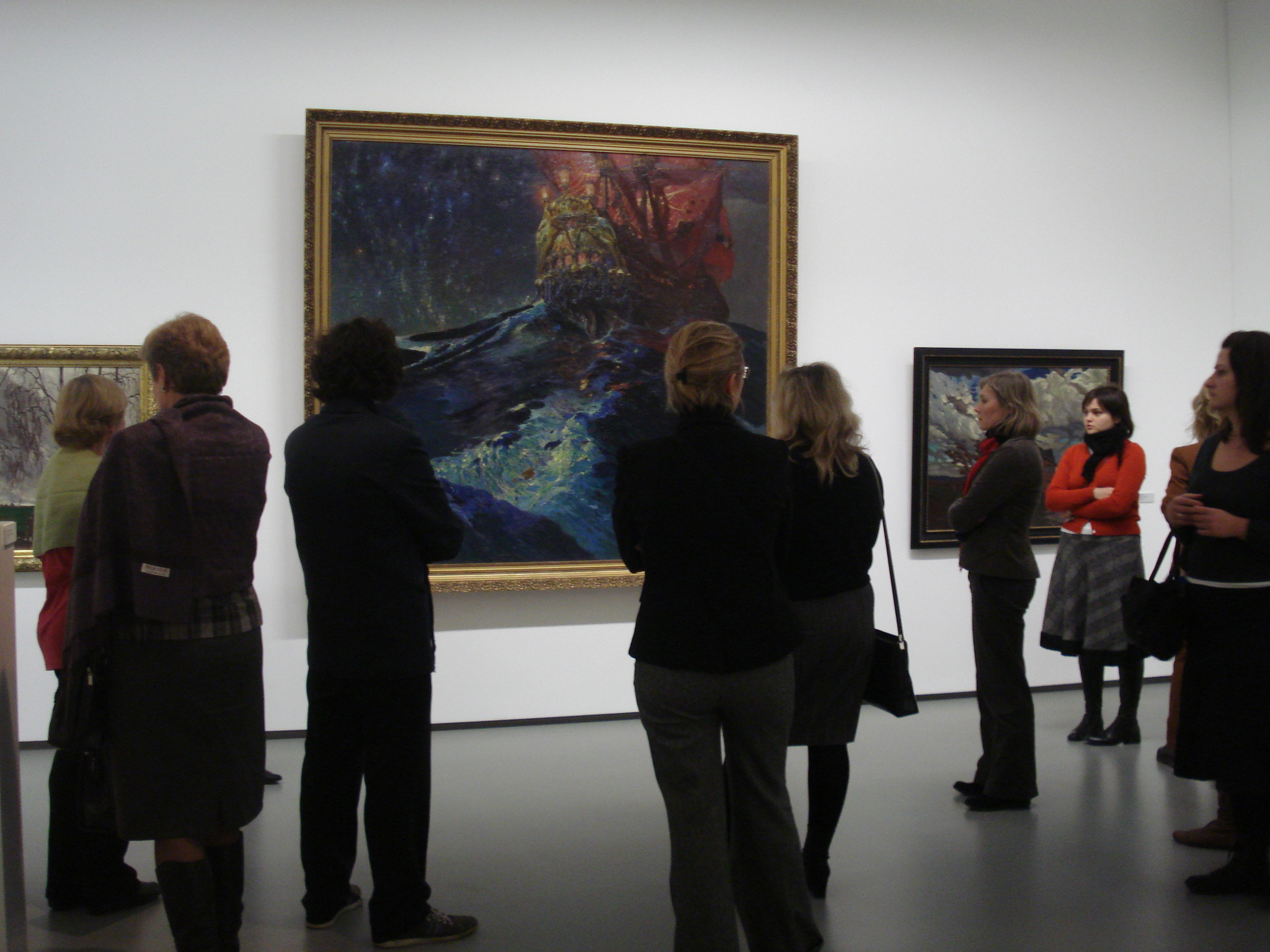 Ferdynand Ruszczyc' (1870–1936) painting in the National Gallery of Art (Vilnius)